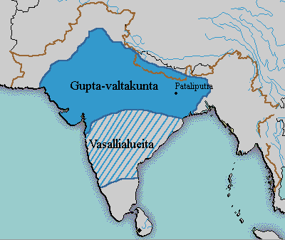 Guptaempire at its greatest extent, vassal areas marked also